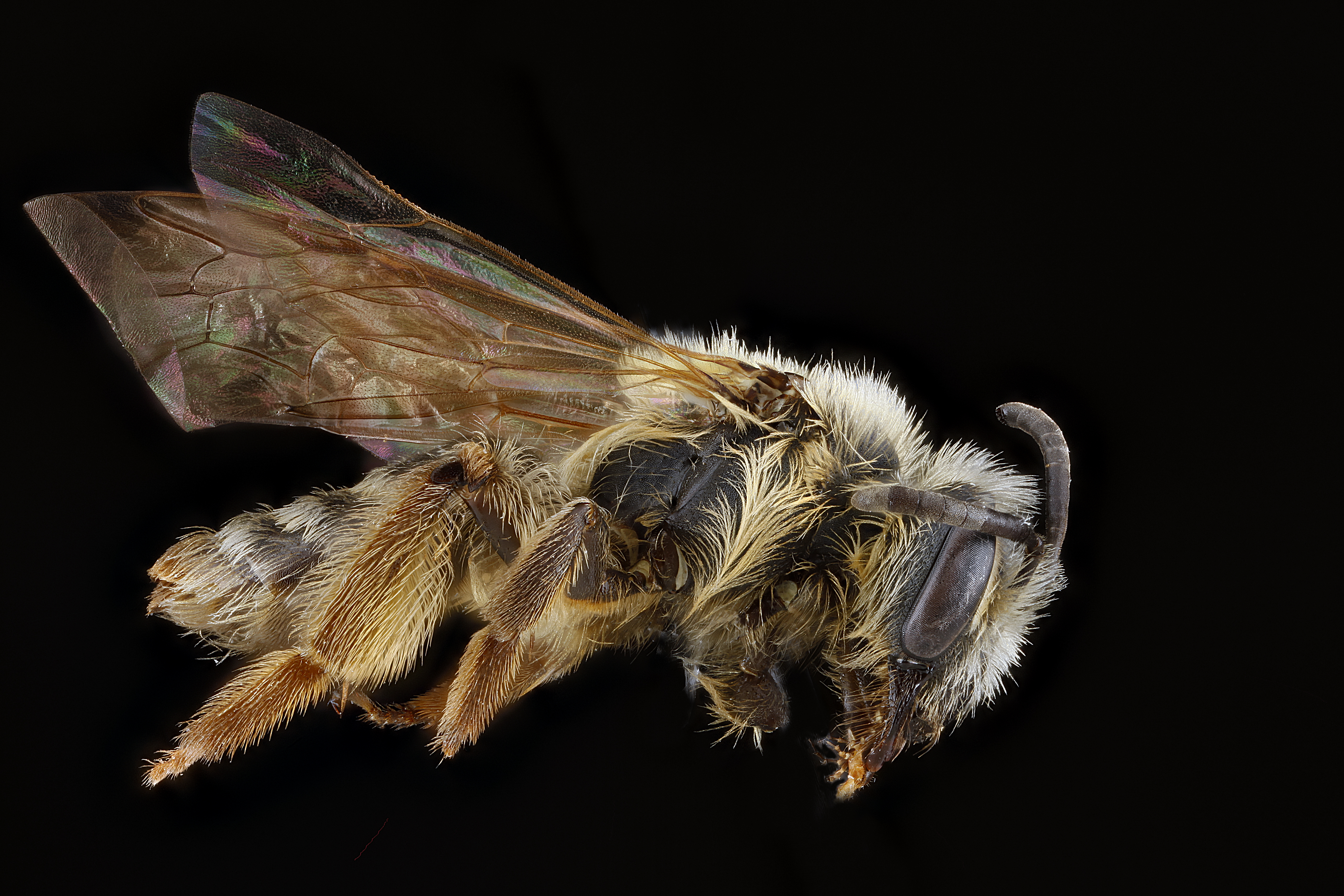 Andrena bisalicis, female, Maryland